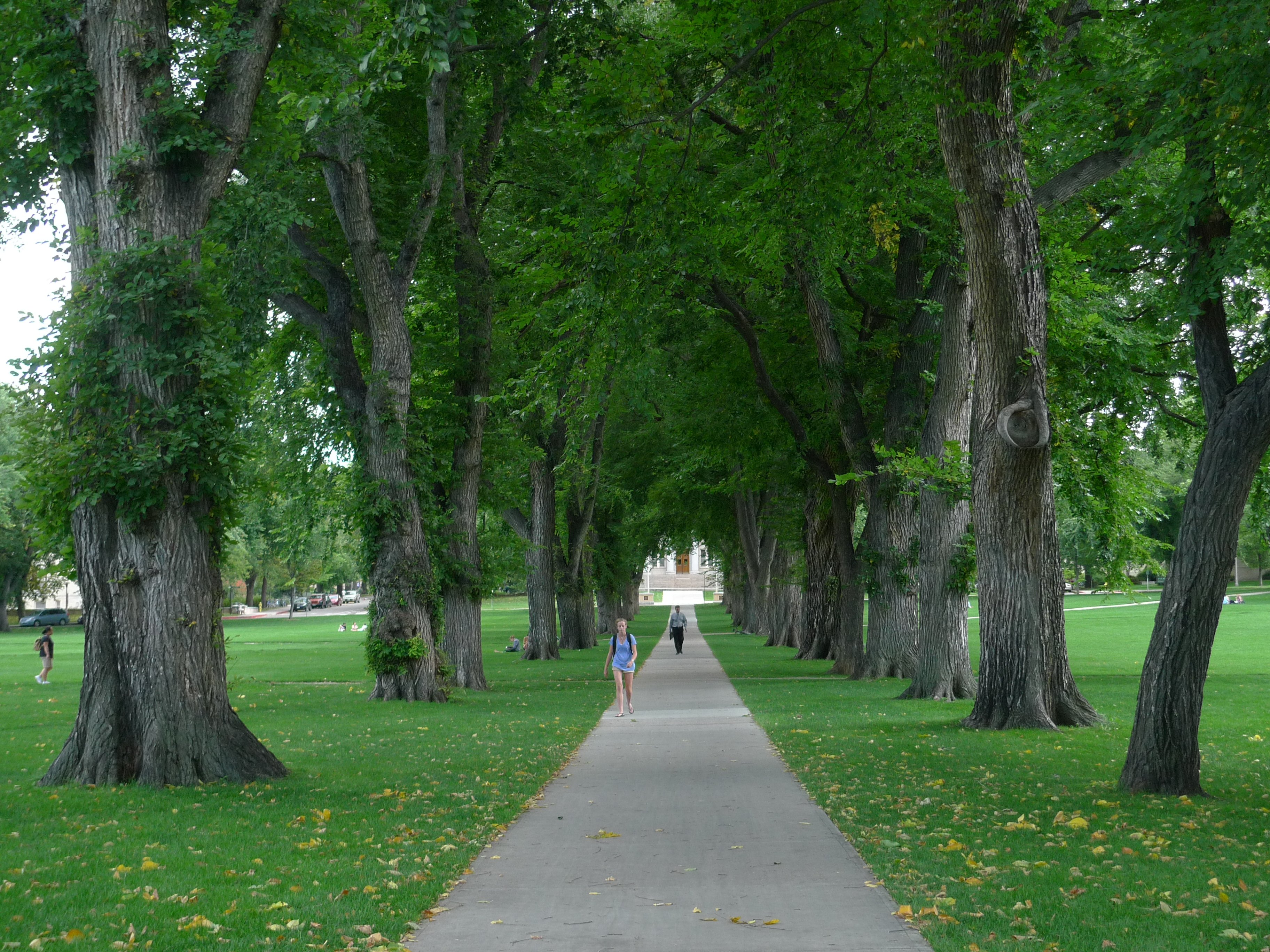 The Oval